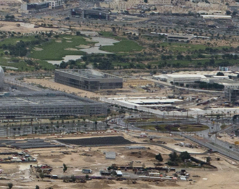 A U.S. Air Force F-15E Strike Eagle assigned to the 494th Expeditionary Fighter Squadron, conducts a formation fly over honoring Qatar National Day, Doha, Qatar Dec. 18, 2019. Qatar National Day is an annual holiday for Qataris to commemorate their national identity and history, and allows them to remember how their national unity was achieved. This year’s Qatar National Day celebration included a parade featuring massive fire work displays, military aircraft flyovers, and many other demonstrations of national unity. (U.S. Air Force Photo by SSgt Bethany La Ville)